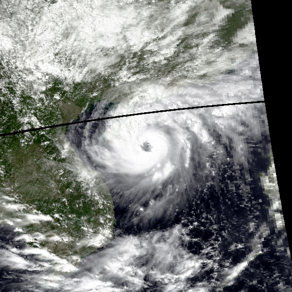 Typhoon Brian on October 2, 1989 with winds of 80 mph and a pressure of 970 mbar.